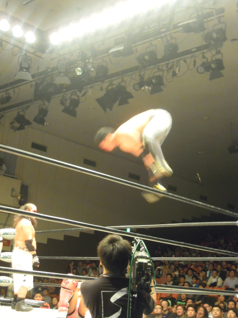 Dragon Splash by Ryuji Ito. Apr 28 2012, BJW Korakuen Hall.